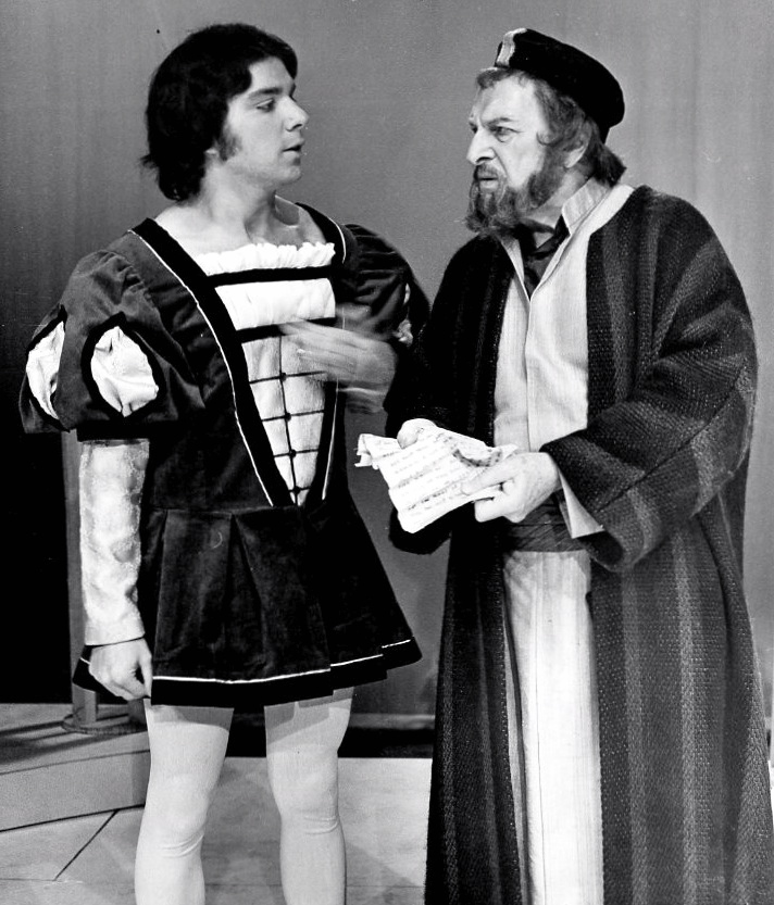 Alan Safier (Gratiano) and Morris Carnovsky (Shylock) in "The Merchant of Venice" in 1973.